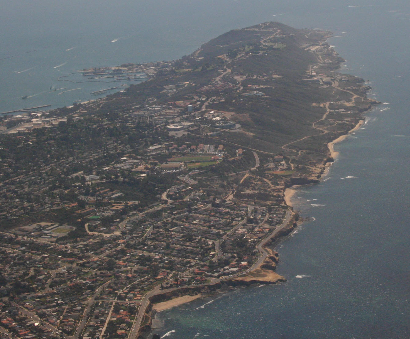 Oblique air photo of Point Loma, San Diego, California, facing south, March 2007.